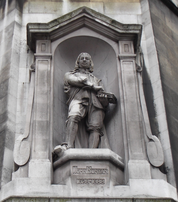 Statue Of John Bunyan-Southampton Row-London